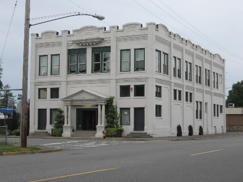 Marysville Opera House - exterior